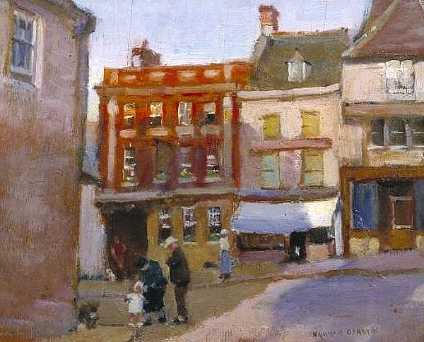 The Bull Hotel - Burford